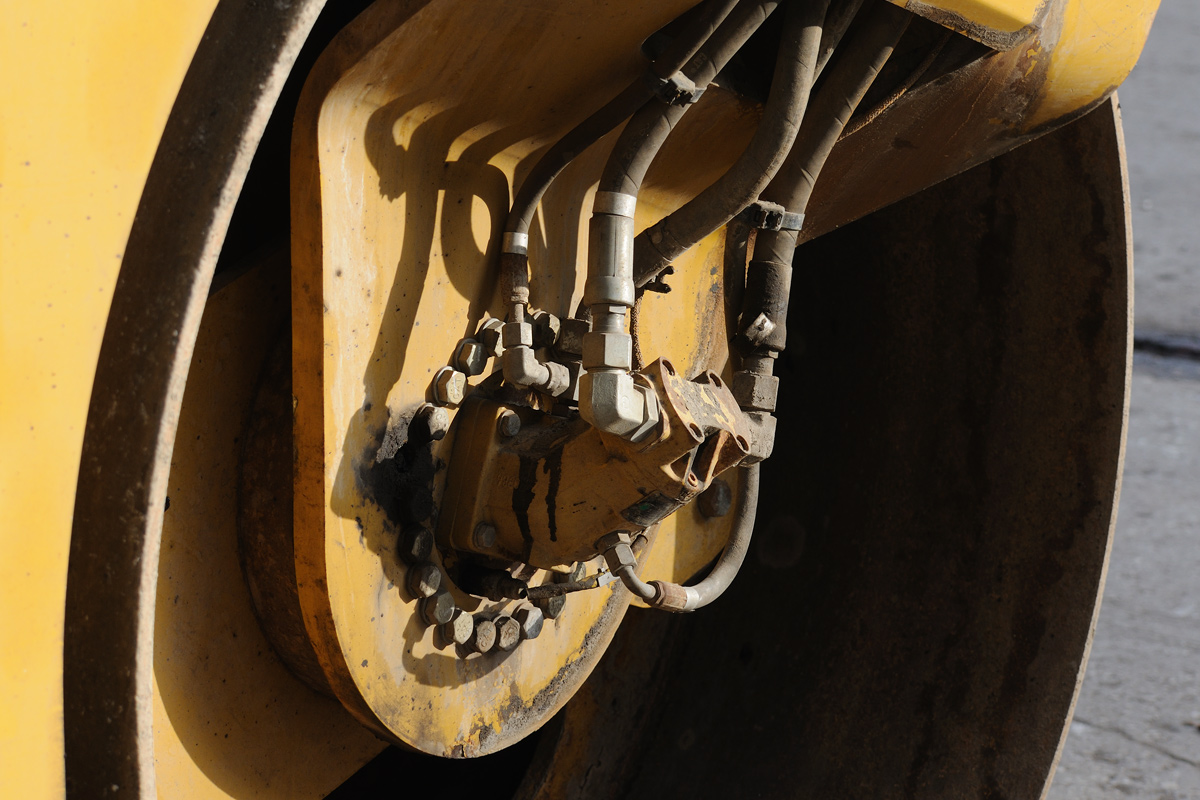 Axial plonger hydromachine of transmission of the Caterpillar asphalt compactor